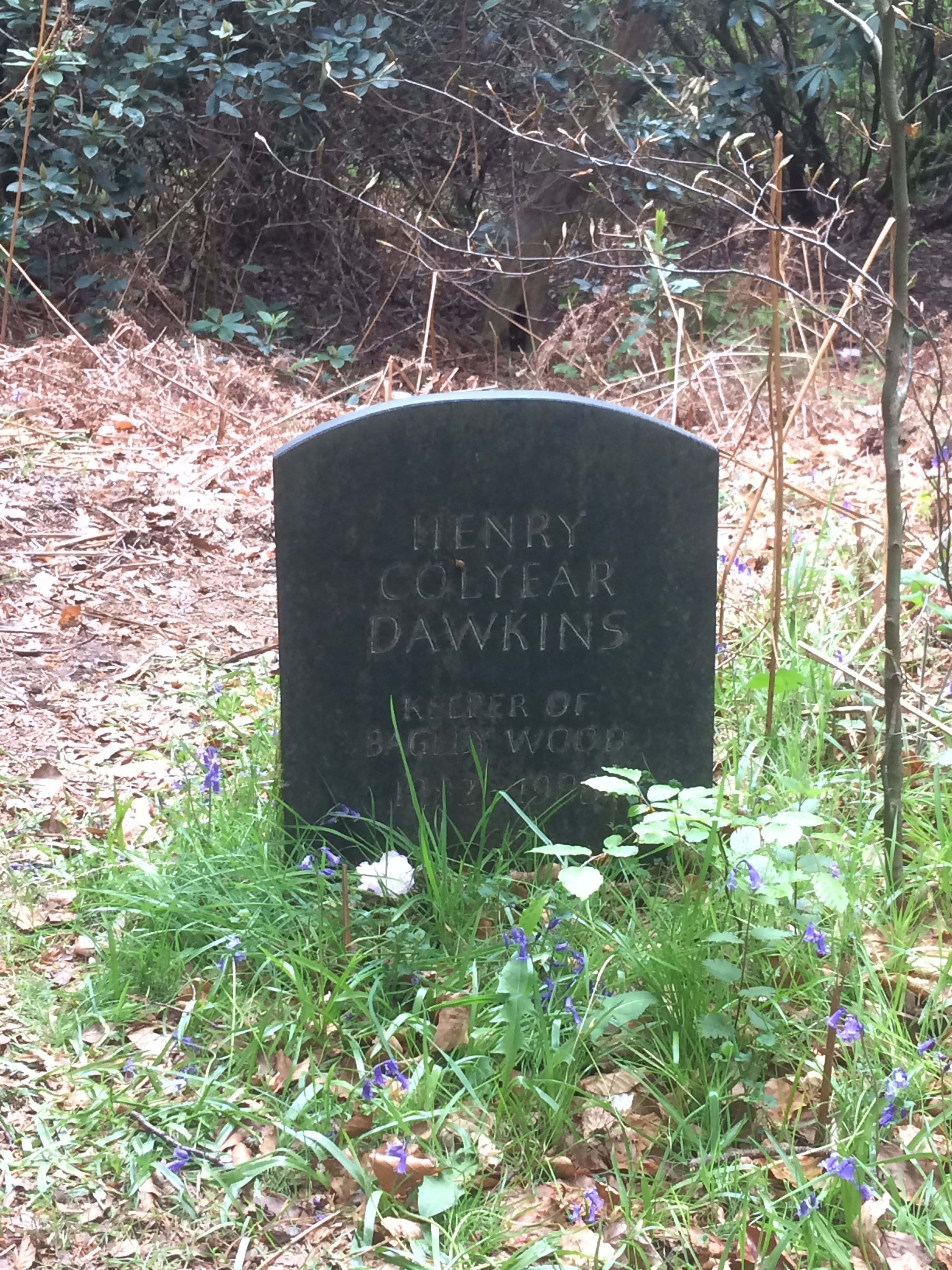 Memorial stone to Henry Colyear Dawkins in Bagley Wood, Oxfordshire, England